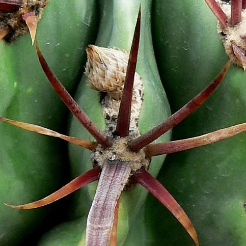 Part of Image:Ferocactus recurvus 2.jpg. Photo of Ferocactus recurvus at the University of California Botanical Garden, taken March 2006 by User:Stan Shebs